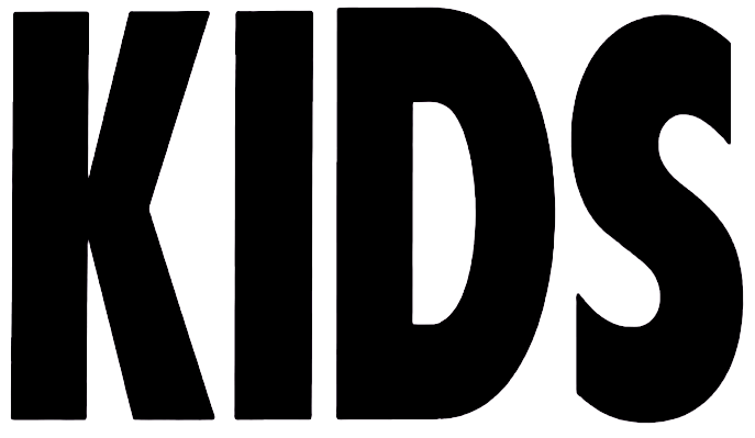 Logo of the movie "Kids" by Larry Clark.